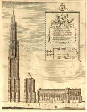 Sint-Lievens Monstertoren as it is (middle) and it should have been (left). On the right is the Sint-Lievens Monsterkerk, which burnt down in 1832.